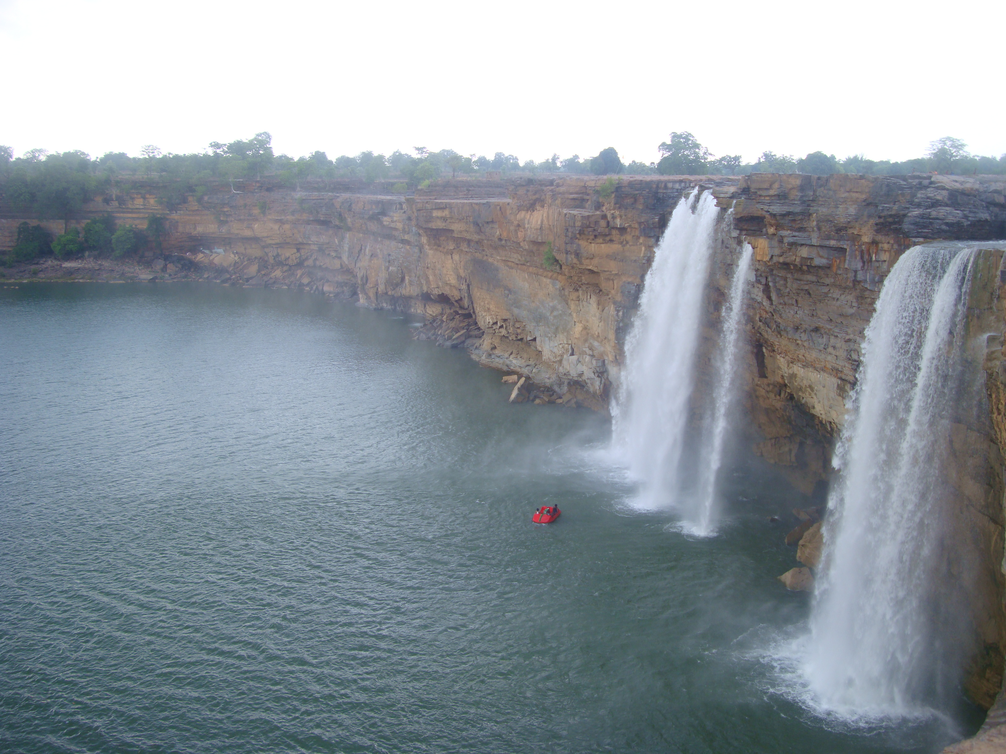 Fall during summer (June)